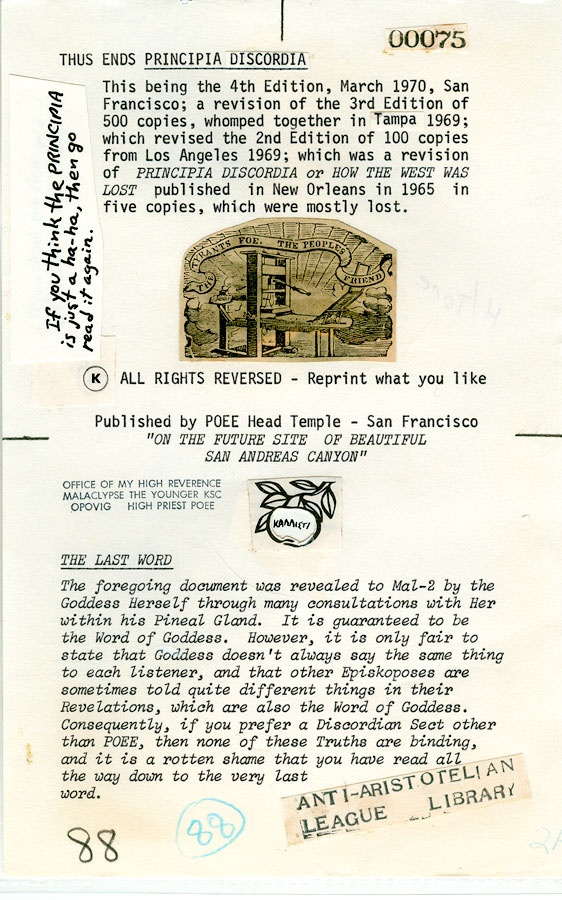 Page of the Principia Discordia (4th edition) that includes the following Copyright disclaimer, "Ⓚ All Rites Reversed – reprint what you like."